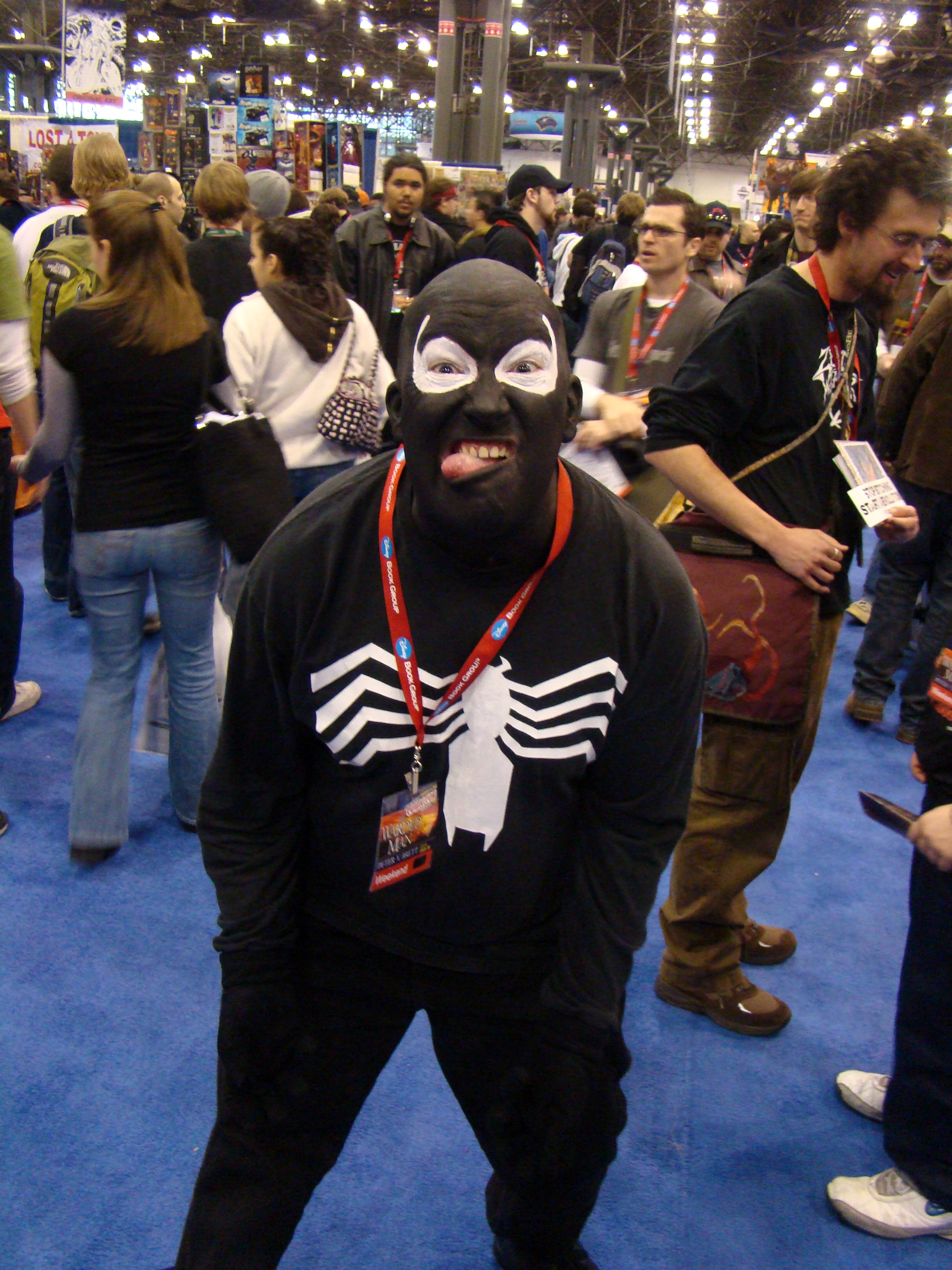 venom New York Comic-Con, Saturday, February7th, 2009. If you see yourself in this or any of my other pictures, let me know in the comments, or by emailing me at loser: [at] istolethe [dot] tv.